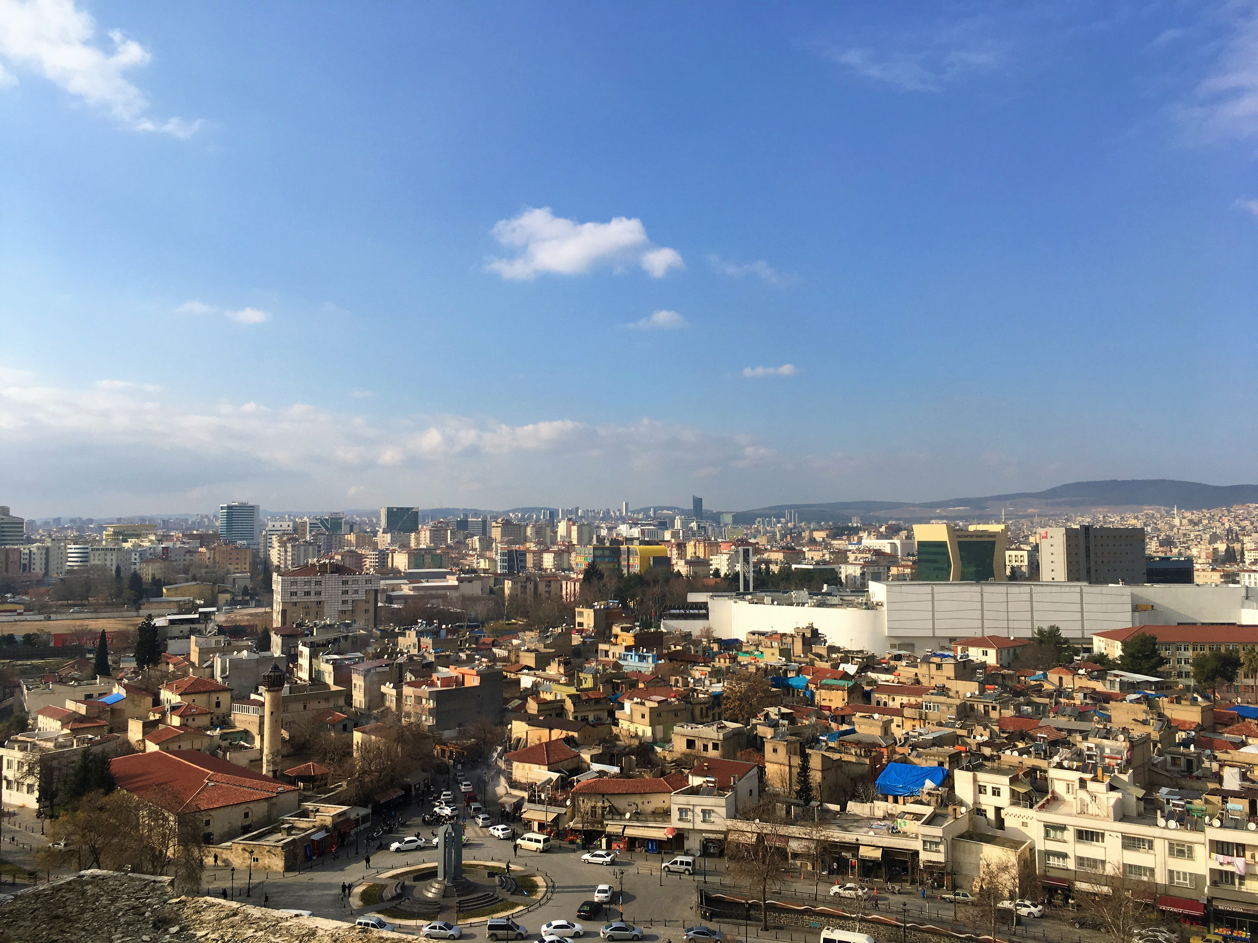 A view of northwest of Gaziantep from Gaziantep Castle.